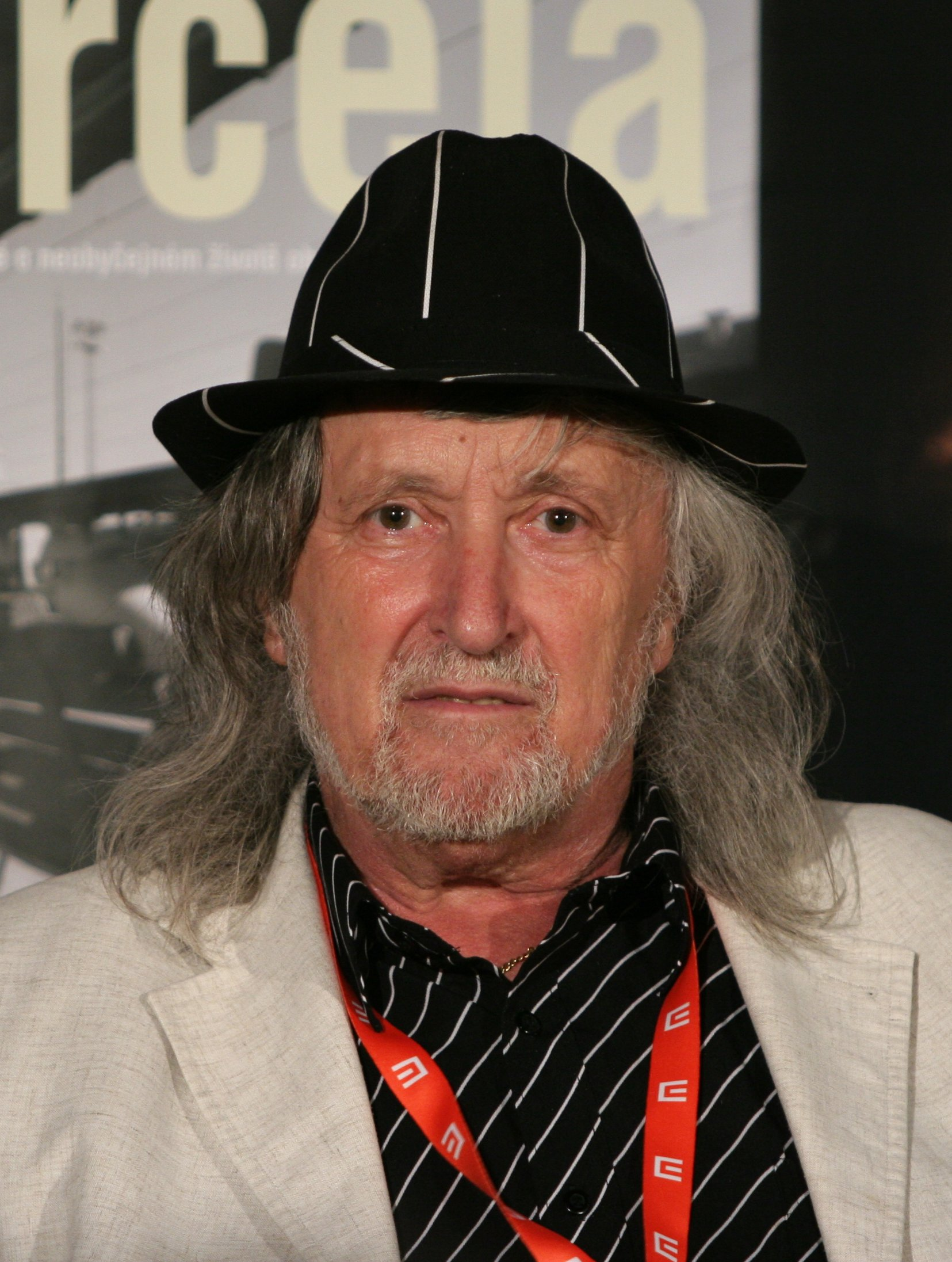 Juraj Jakubisko at 42nd Karlovy Vary International Film Festival